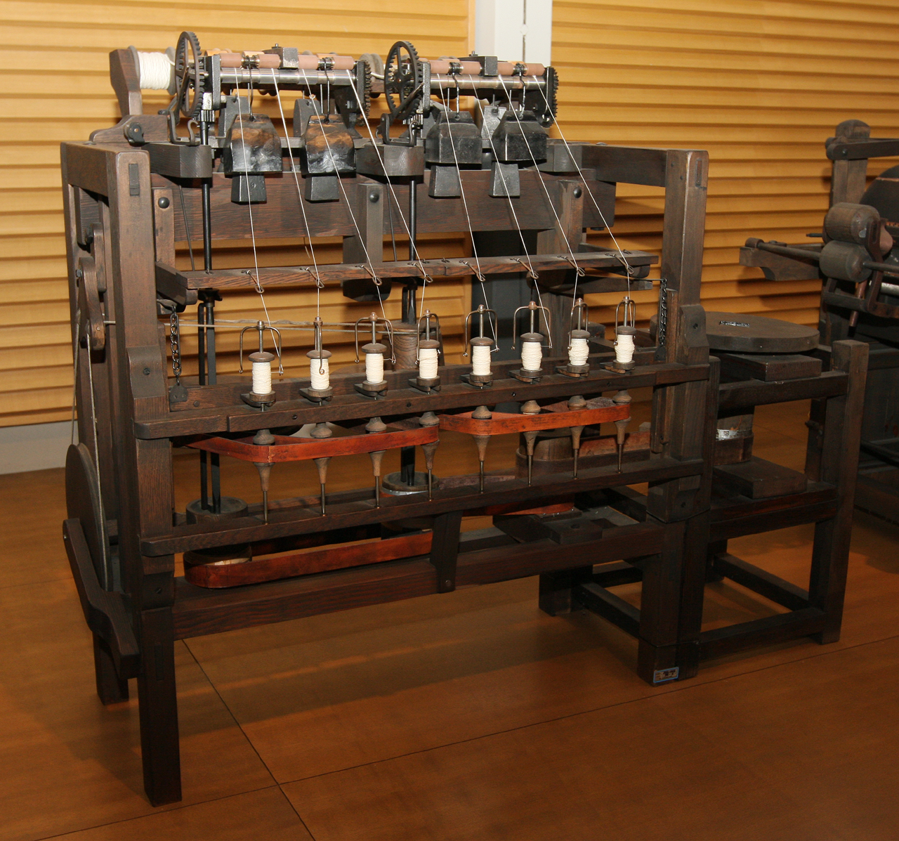 Arkwright's Water Frame (replica)